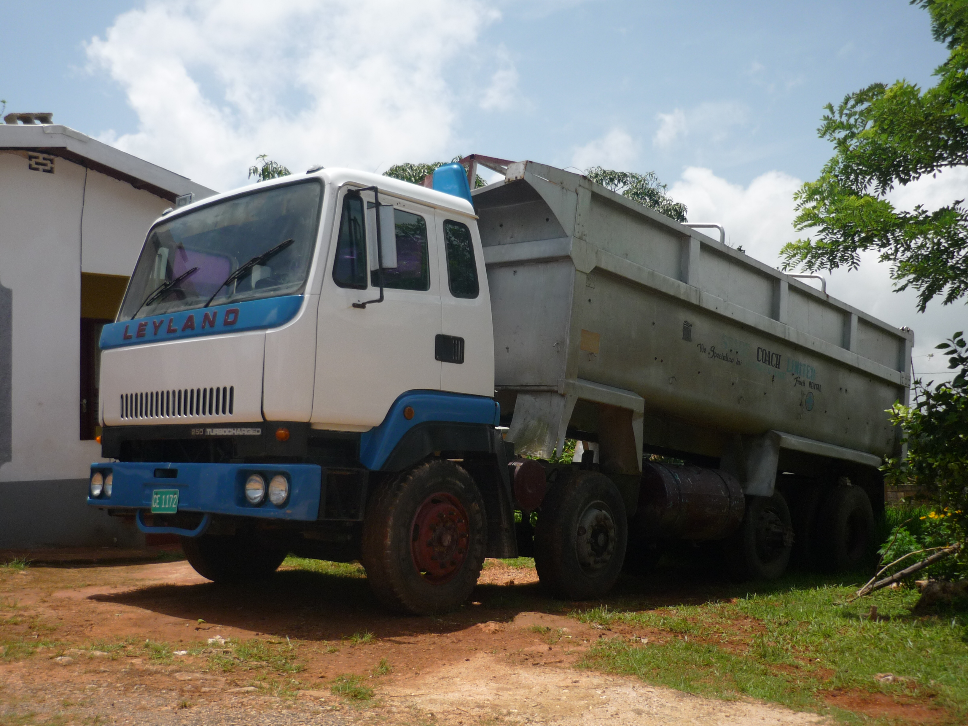 These 8x8 leylands were never very common in jamaica, and they're still fairly rare down there now. The only 8x8s regularly found down there now are Internationals.